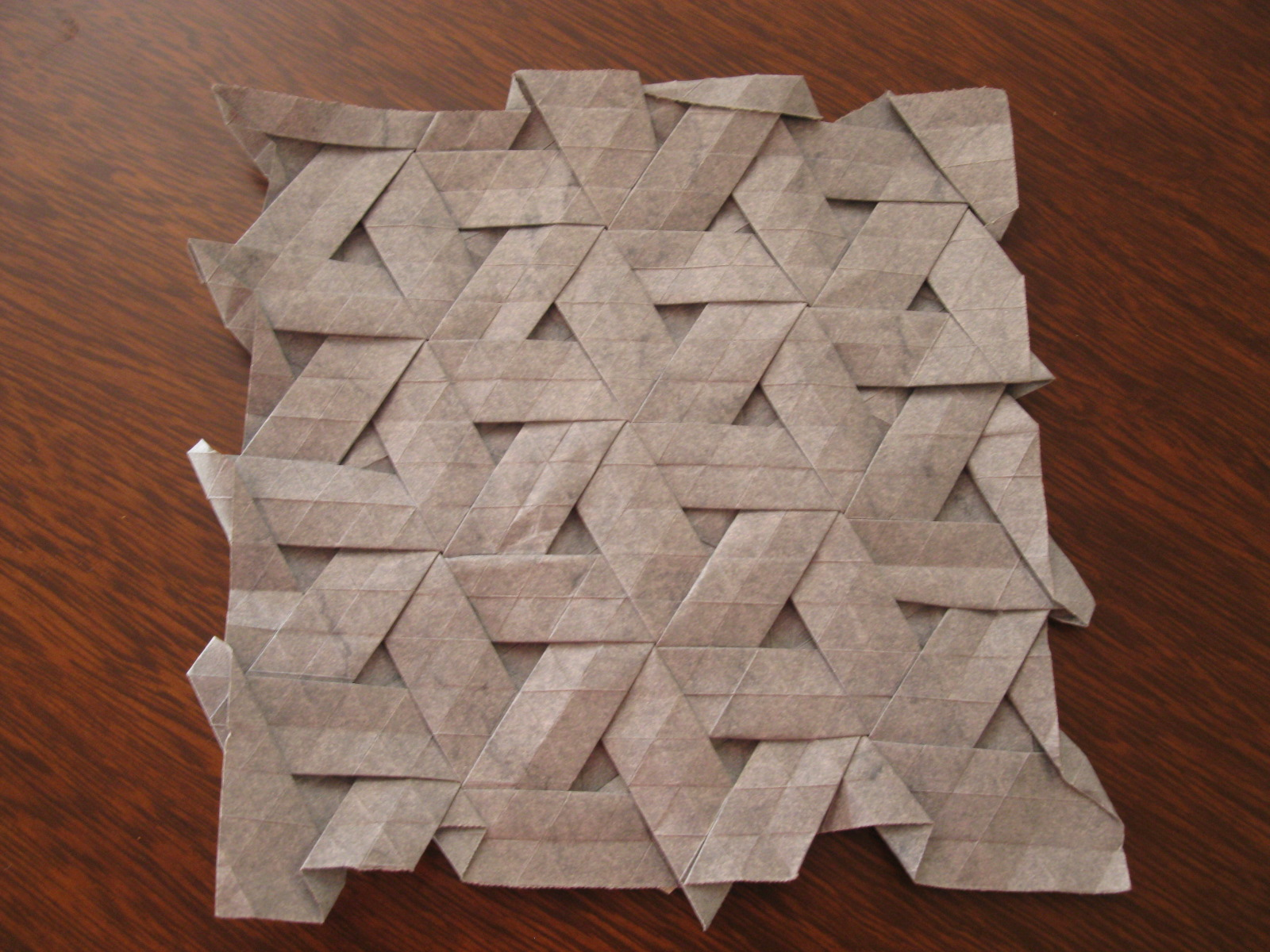 Eric Gjerde's Pinwheel Tessellation (front).jpg using elephanthide paper.